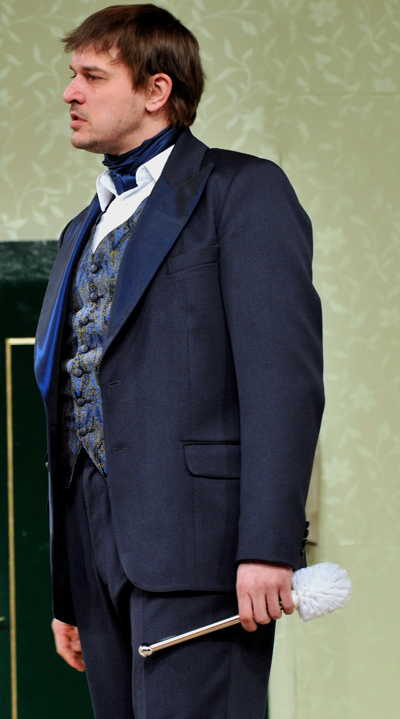 Petr Štěpán